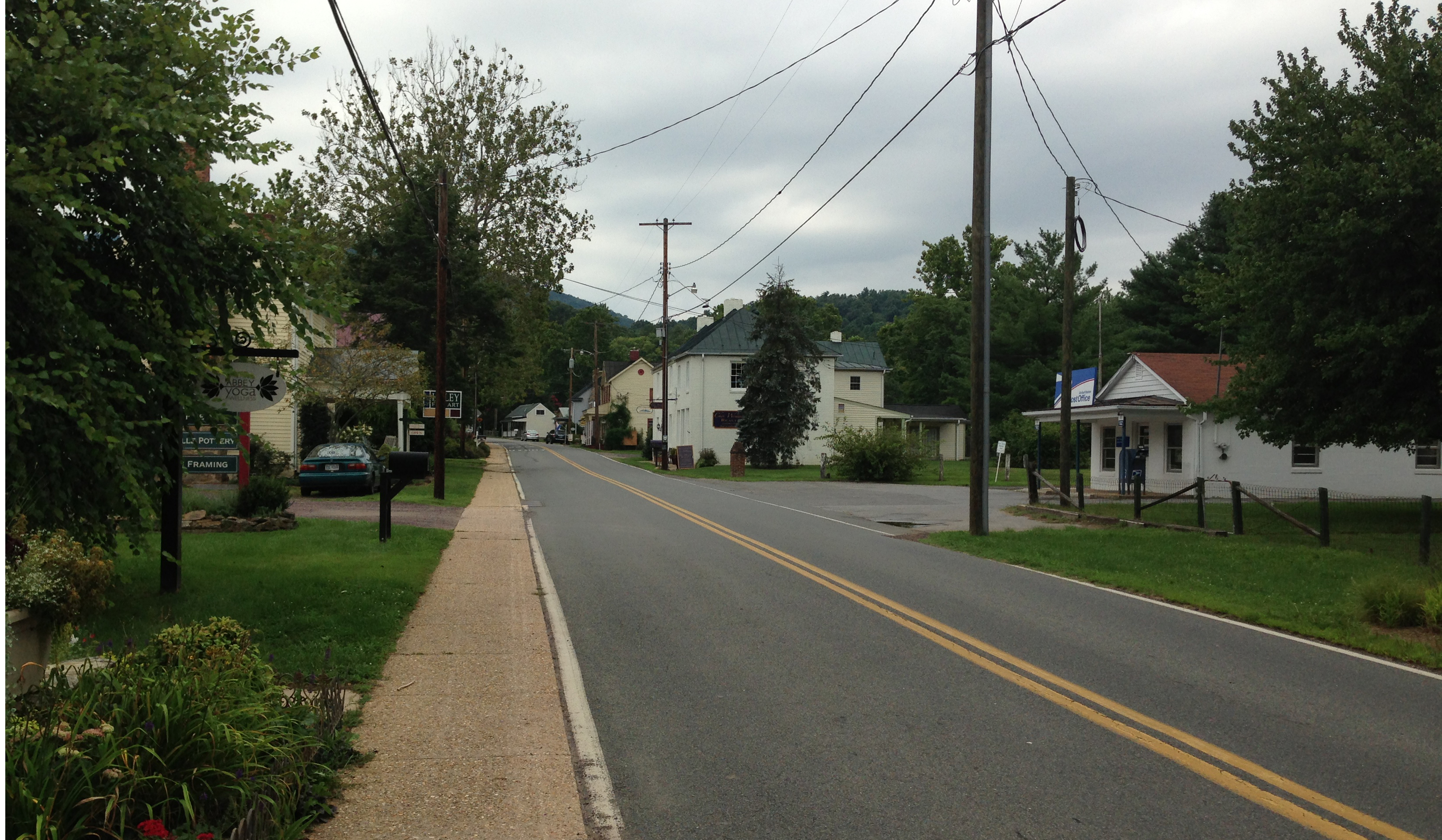 Main Street in Sperryville, Virginia